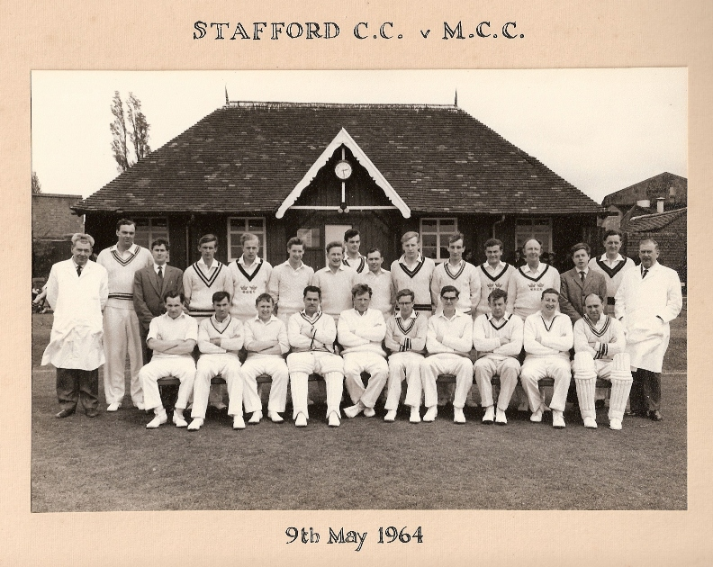 Stafford Cricket Club Centenary Match versus the M.C.C. in 1964